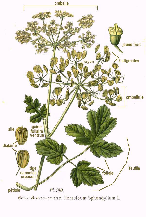 Heracleum sphondylium L.